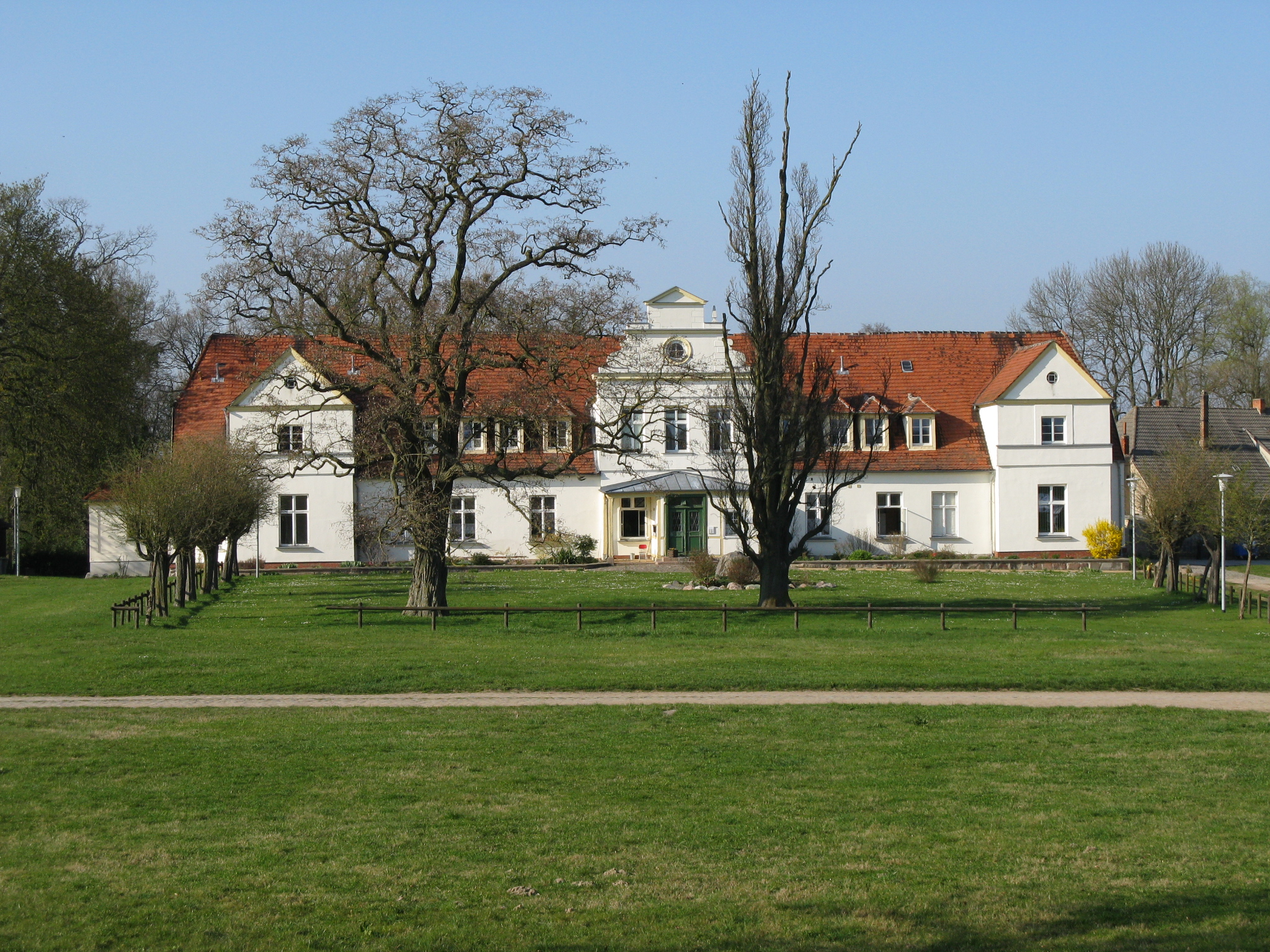 Manor house in Groß Grabow, district Güstrow, Mecklenburg-Vorpommern, Germany